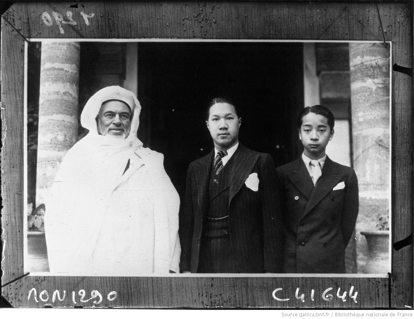 From left to right, His Excellency Abd Al Rahman Barjach Pasha of Rabat, the Emperor of Annam Bảo Đại and his cousin Prince Vinh Can: [photograph of press] / World Agency